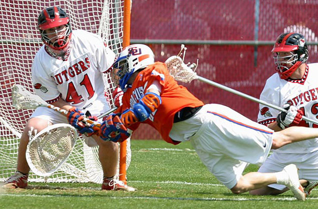 Michael Powell scores goal for Syracuse against Rutgers Image made by Robert Swanson